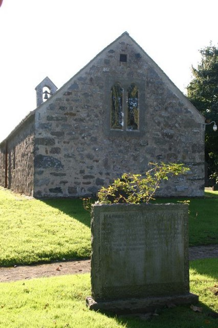 Inventor's headstone The headstone of Maurice Wilks overlooked by the east end of St Mary at Llanfair yn y Cwmwd. Maurice_Wilks